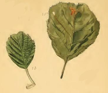 Stainton’s Natural History of the Tineina (1855–1873): Heliozela resplendella young alder leaf, showing the early mine of a young larva (1b); developed alder leaf, showing the blotch mine of the adult larva, and another mine whence the oval case has been cut out (1b*)